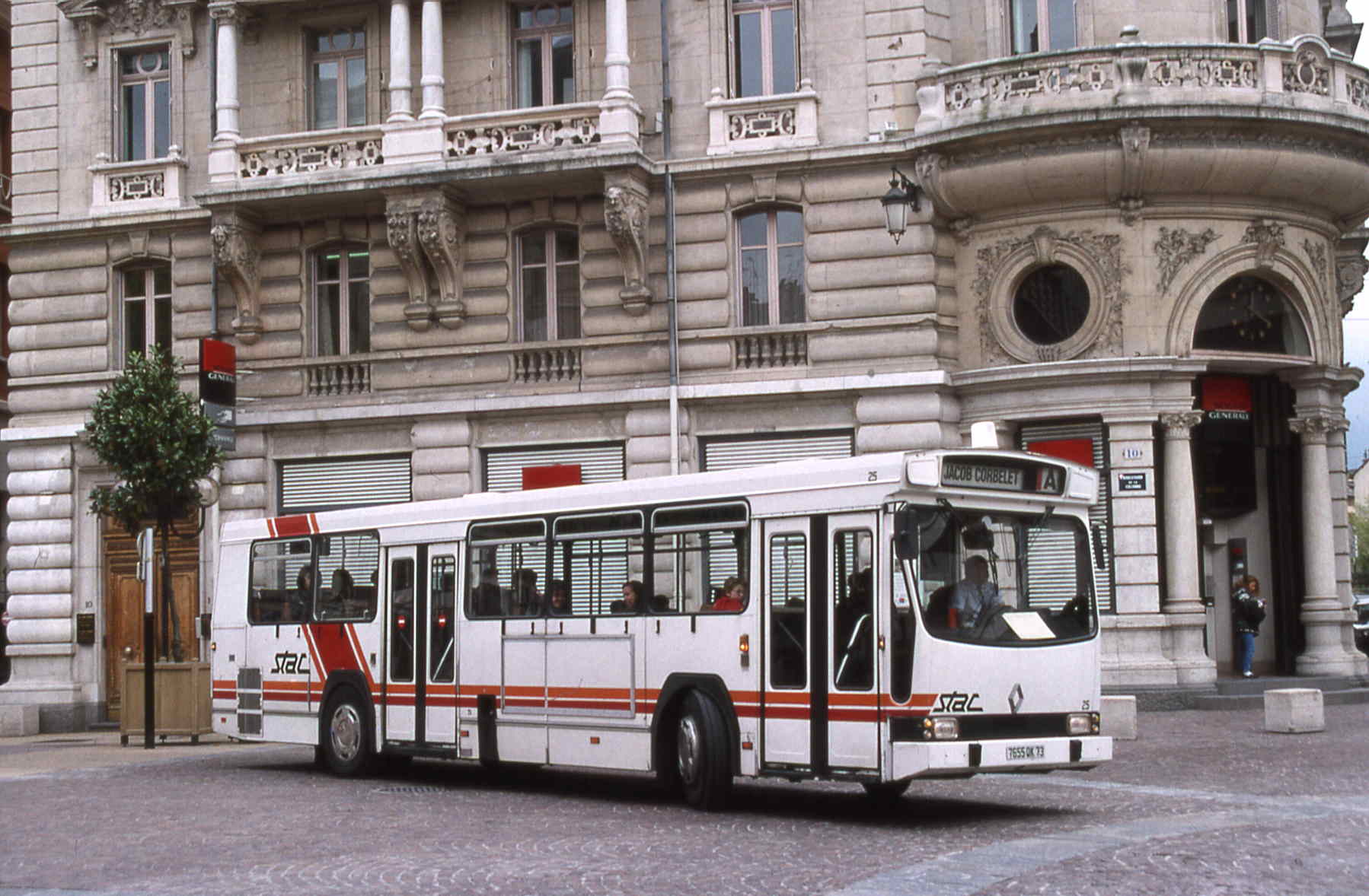 A Renault PR100 MI (n°25 of the SIAC) running on Stac’s line 3, on the Place des Éléphants (Chambéry, France) in April 1994.